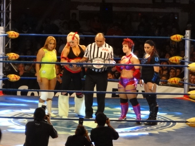 AAA Reina de Reinas Championship Match at Rey de Reyes (2013). Left to right: Faby Apache, Taya Valkyrie, LuFisto, and Mari Apache.